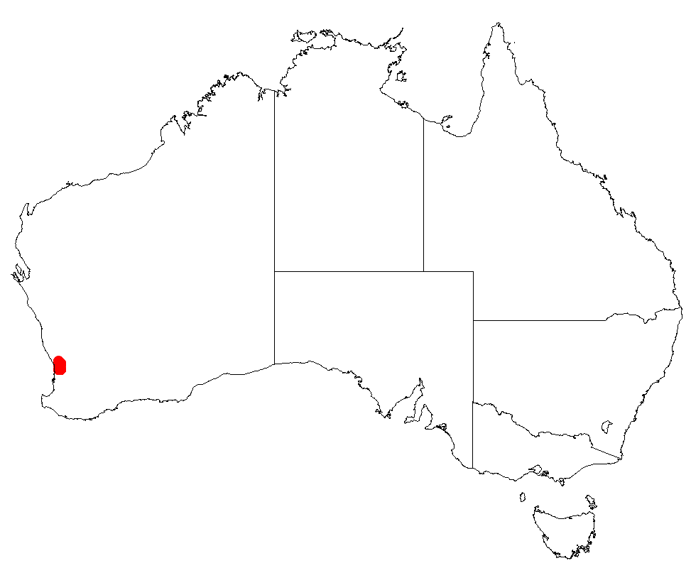 Acacia anomala Occurrence data from Australasia Virtual Herbarium downloaded from on 8 December 2018